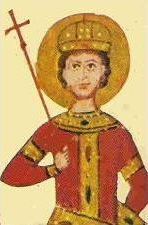 Engraving of Ivan Shishman of Bulgaria as a child. Source: Tetraevangelia of Ivan Alexander alcoron